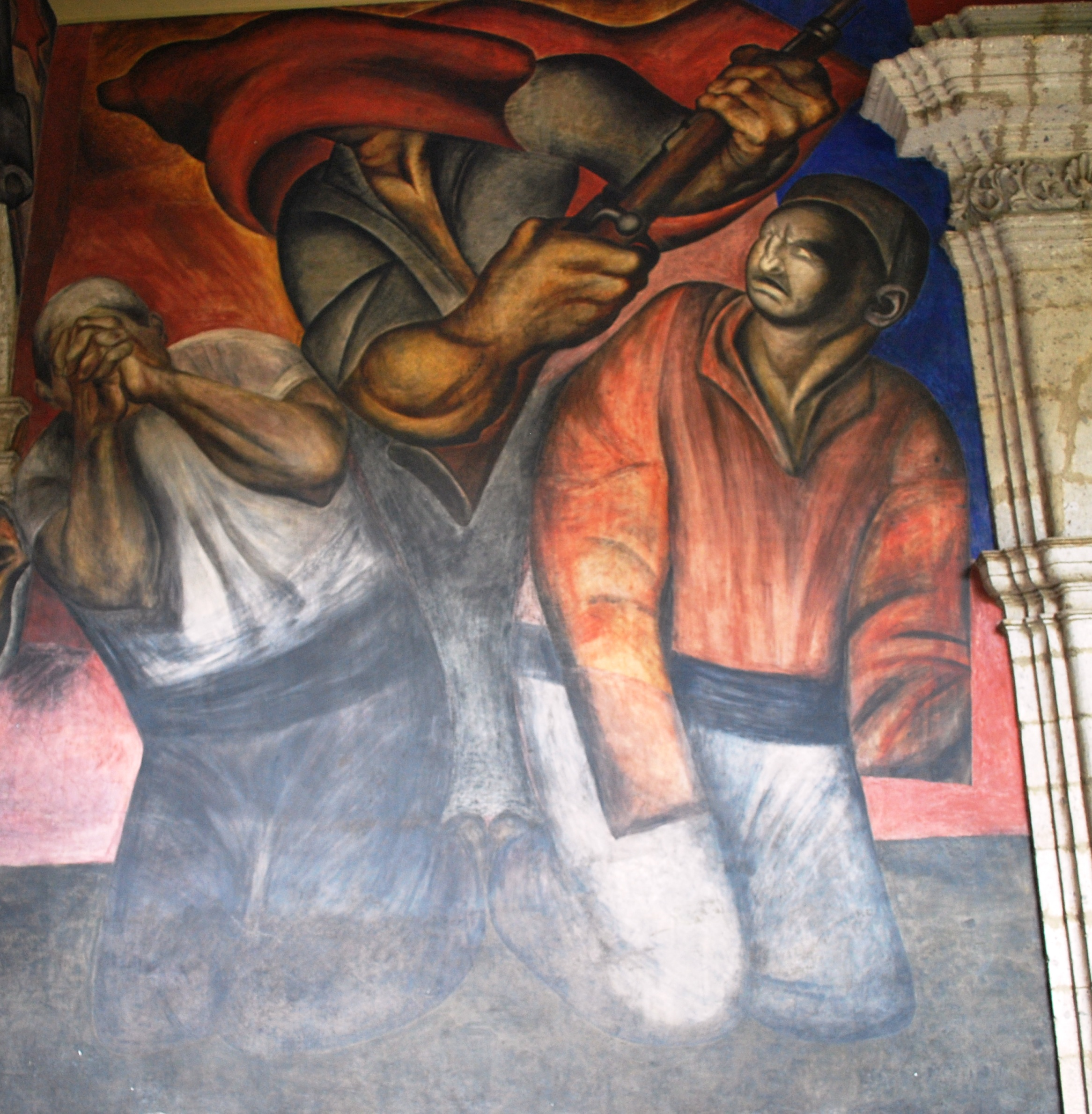 Mural section entitled "La Trinidad Revolucionaria" (The Revolucionary Trinity) by Jose Clemente Orozco on one of the walls of the San Ildefonso College in the historic center of Mexico City. This mural falls under Freedom of Panorama under Mexican law.